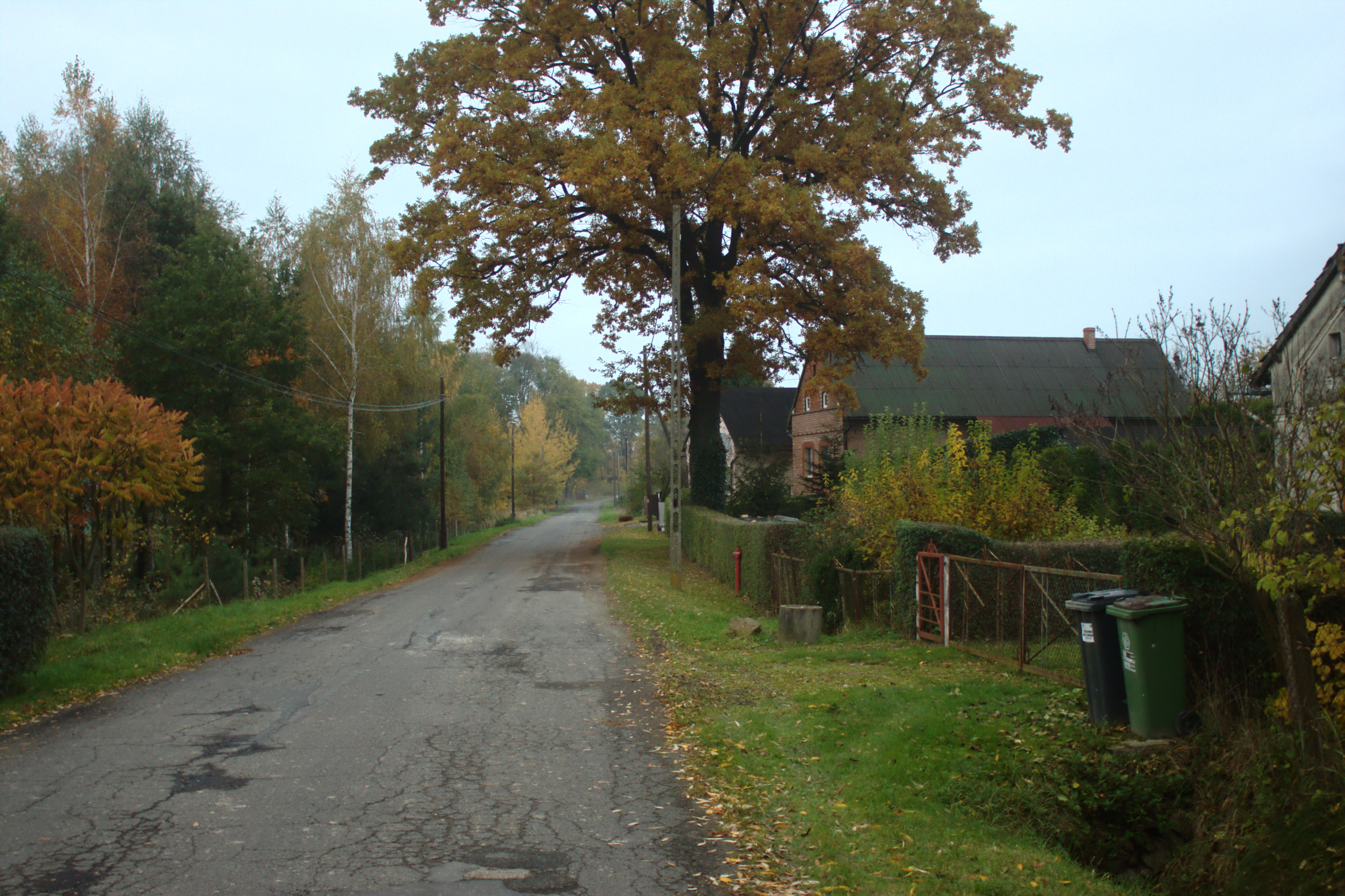 Southeastern edge of the village of Milice, Opole Voivodeship, PL